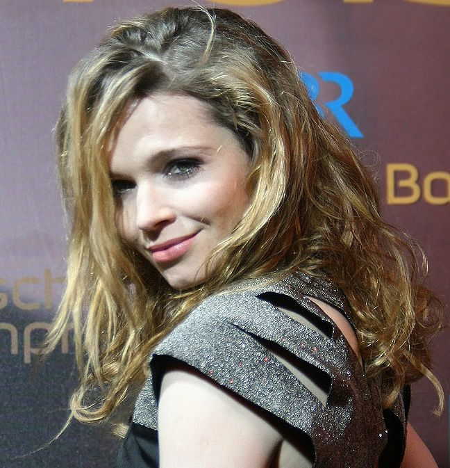 Karoline Herfurth, Bavarian Film Awards 2012 at the Prinzregententheater in Munich.